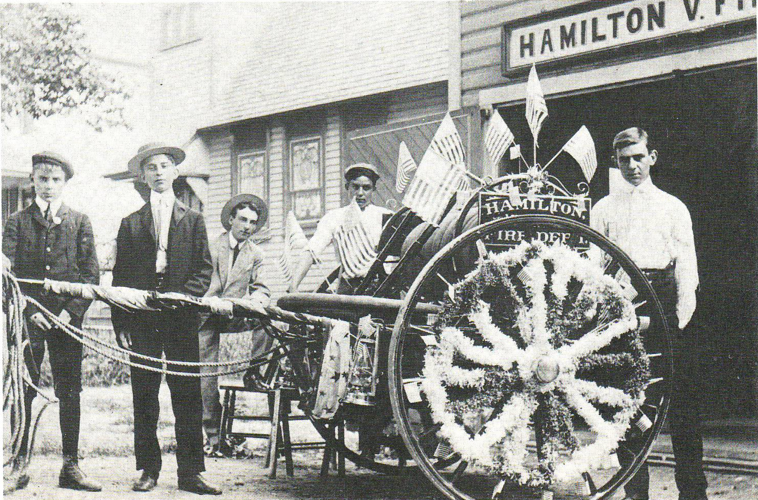 The Hamilton, Baltimore, Volunteer Fire Department in 1910